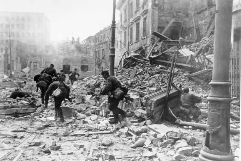 Warsaw Uprising: Germans on Focha Street (now called Molier Street) attack towards Town Hall and Blanka Palace